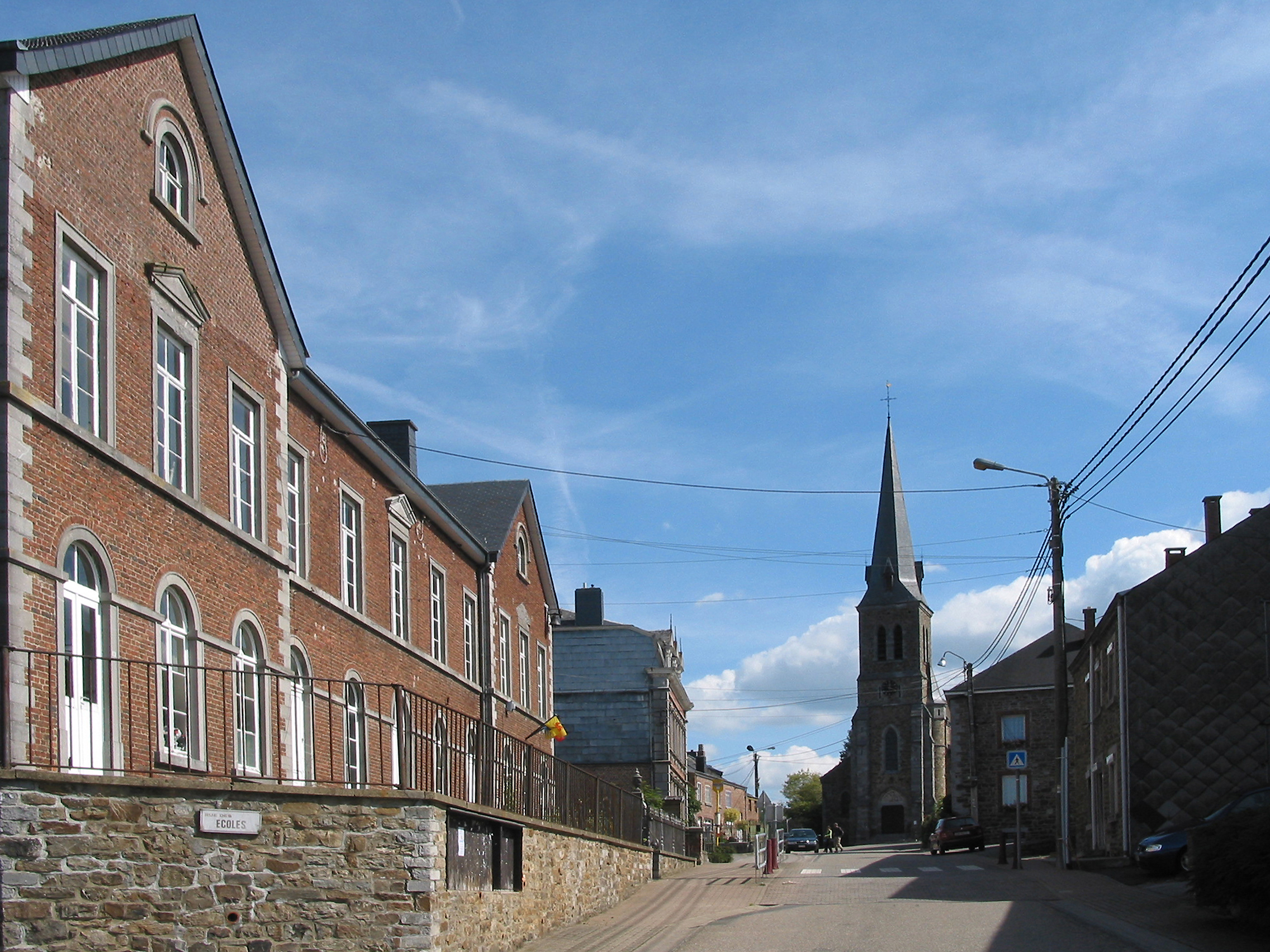 Awenne (Belgium), the neighbourhood of the old school (previous town hall) and the church.